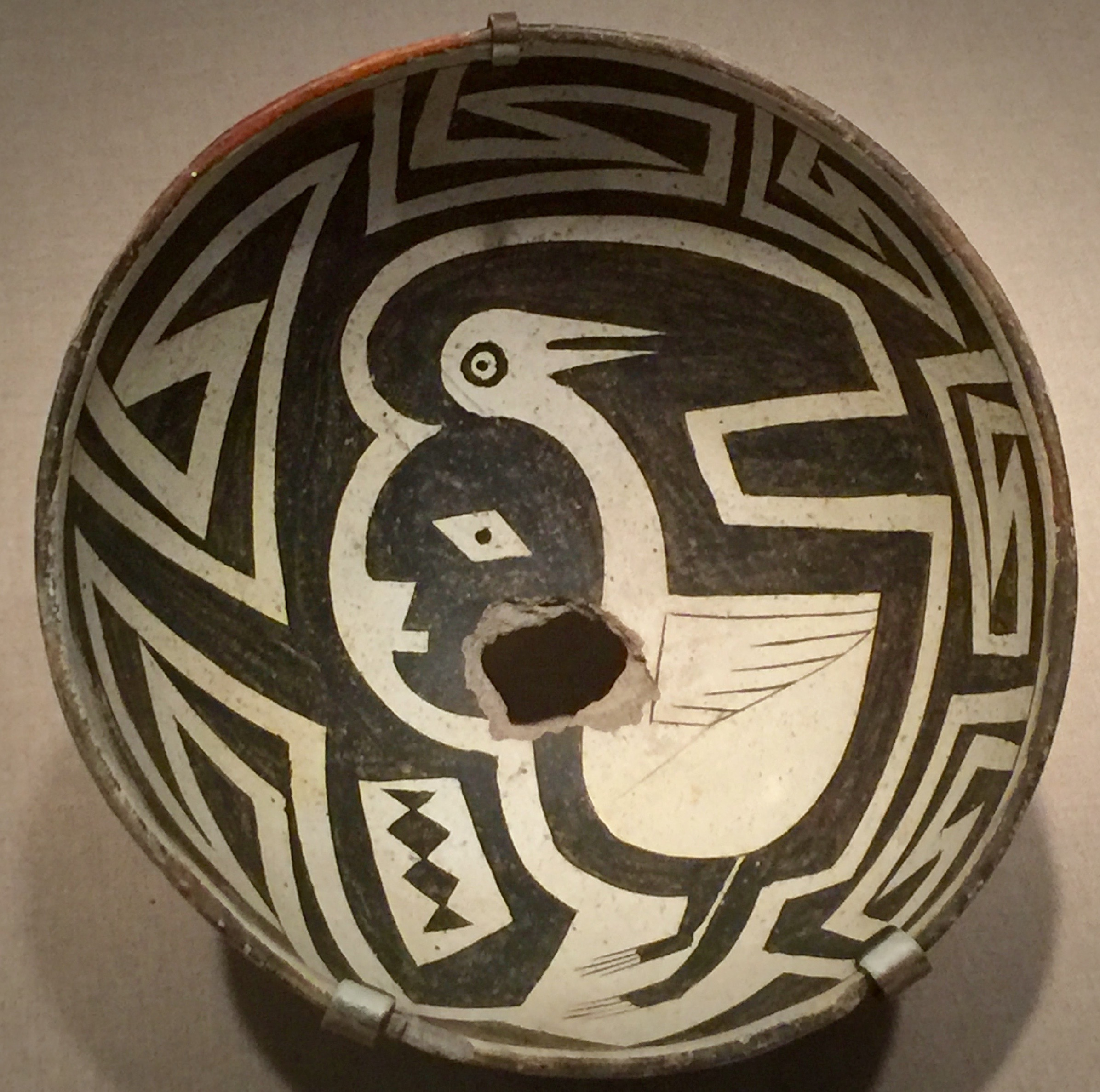 Mangas (Mimbres), Mattocks site, ex-Janss Foundation collection. Published Brody, 1977 SAR book, Fig. 32. This is another "famous" pot, published at least twice before. Janss Fndtn. is in Thousand Oaks. Presumably the Weisels bought it from Janss, and then donated it to De Young. Great proto-Escher black/white design reversal. Great pot, really.